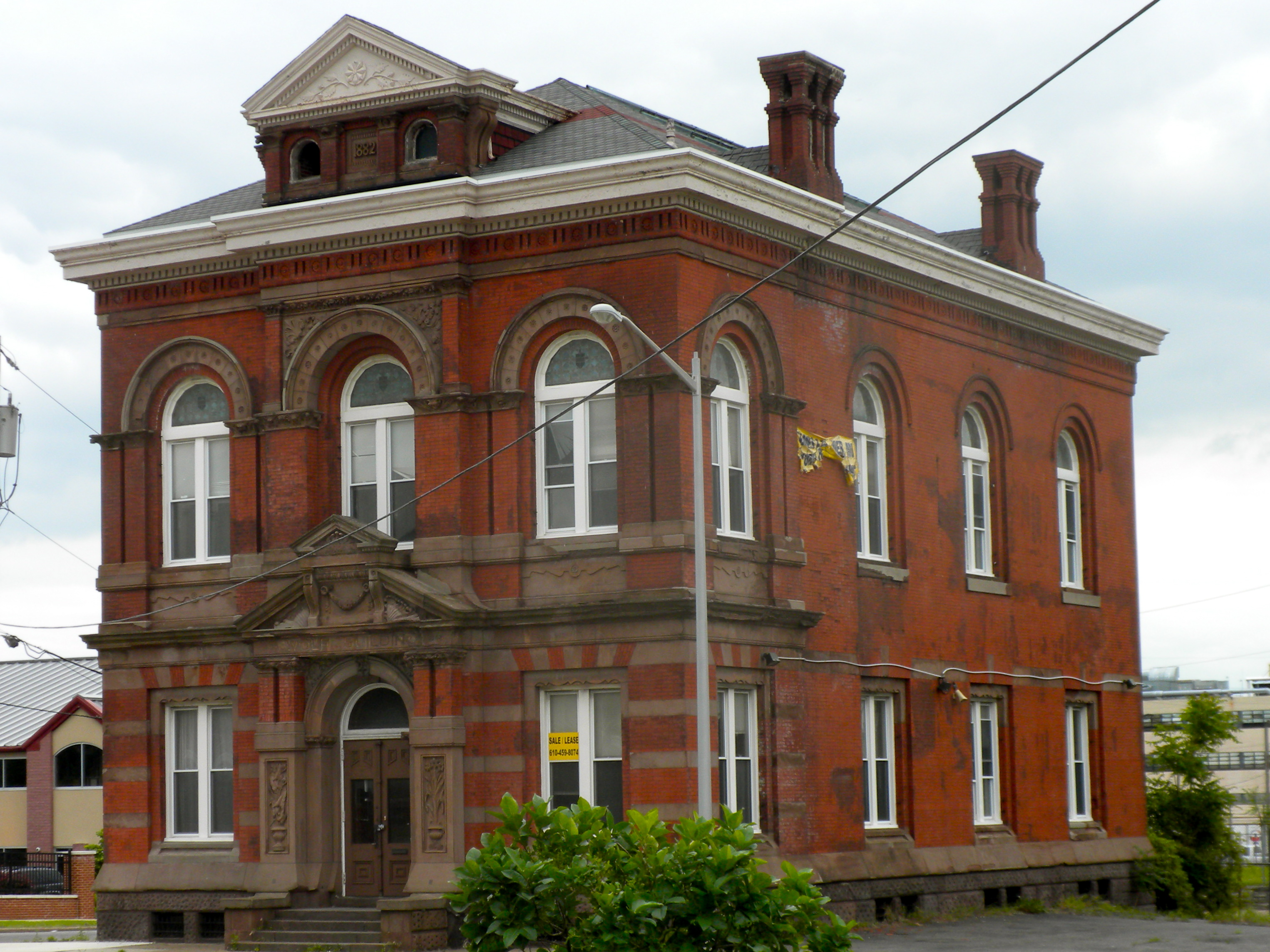 Delaware County National Bank — at 1 West Third Street, Chester, Pennsylvania. On the NRHP, November 5, 1987.